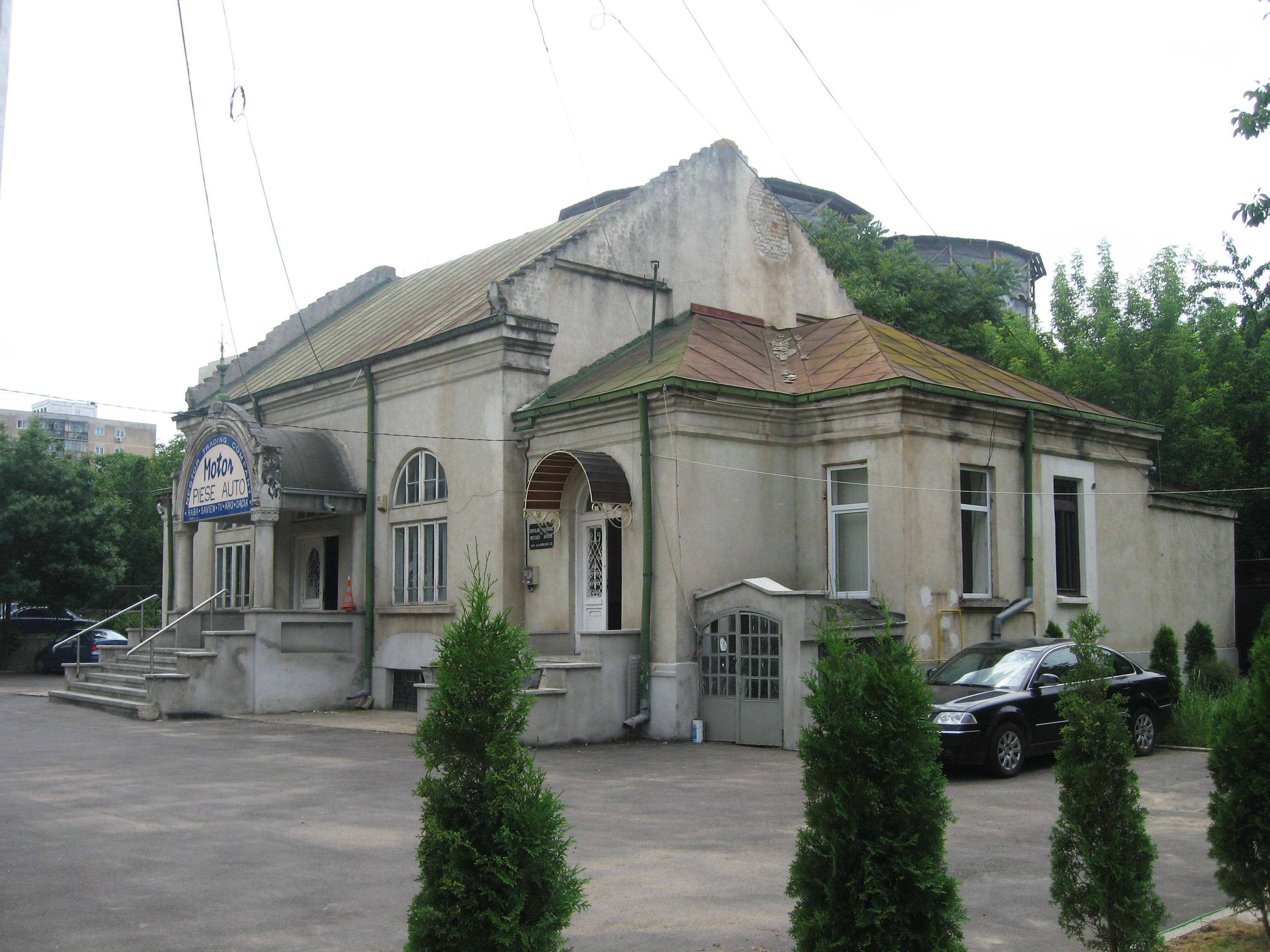 Armenian church in Iași